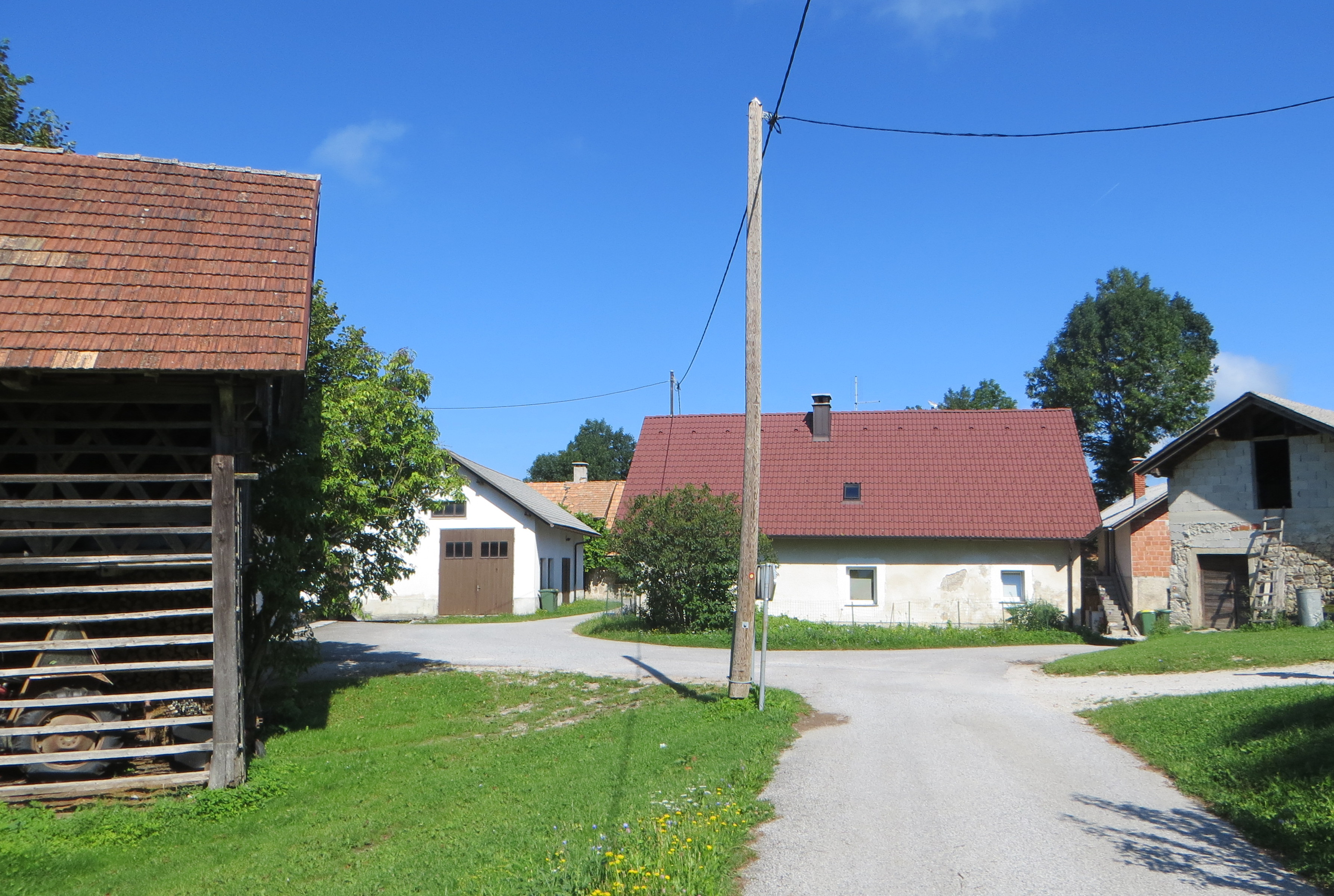 Strmca, Municipality of Bloke, Slovenia